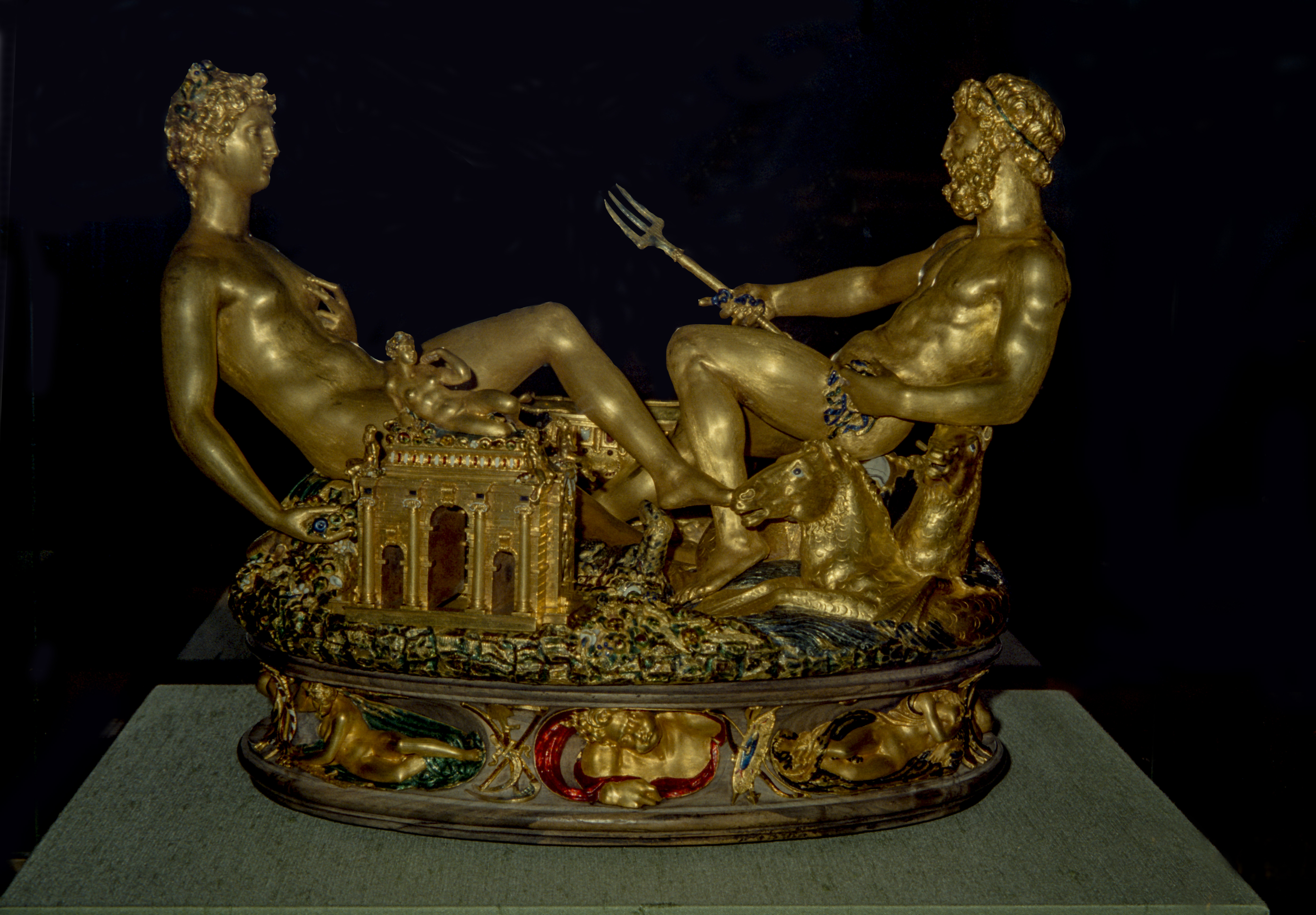 salt cellar by Benvenuto Cellini